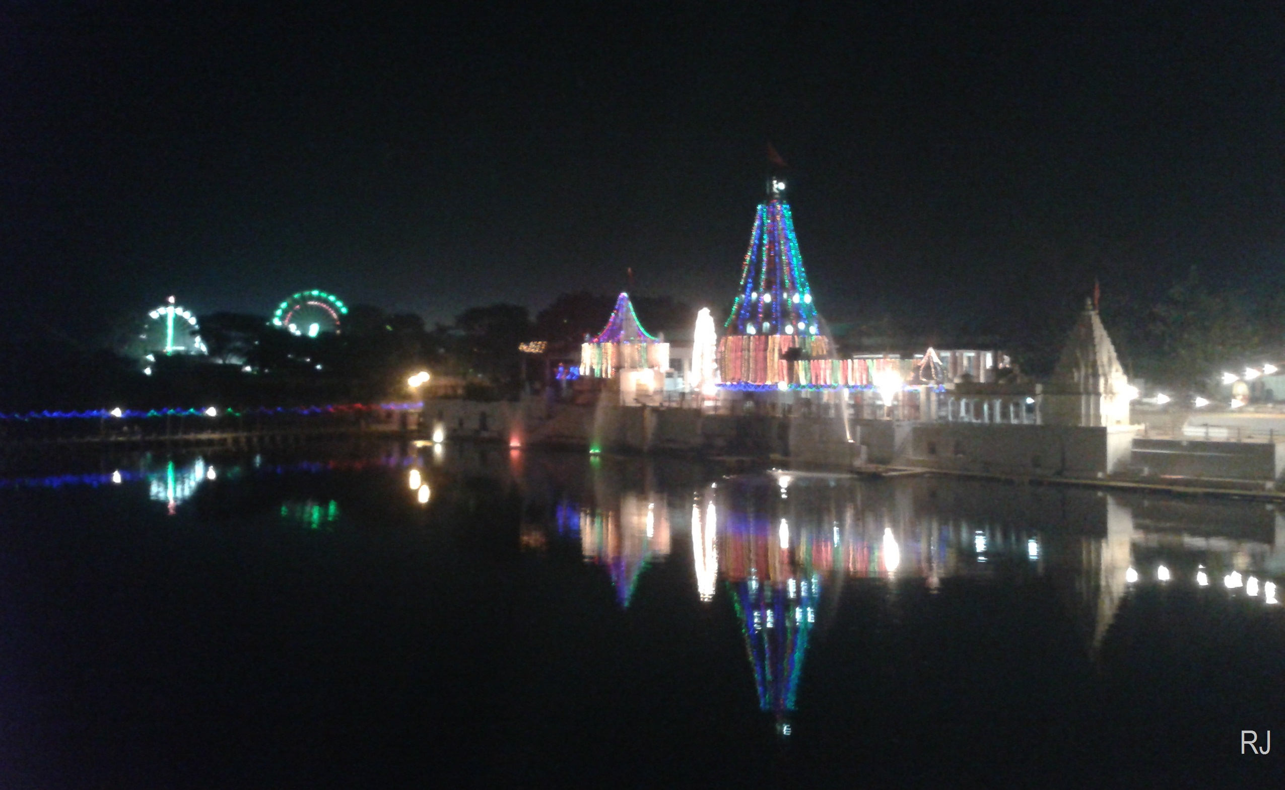 Pashupatinath Temple, Mandsaur